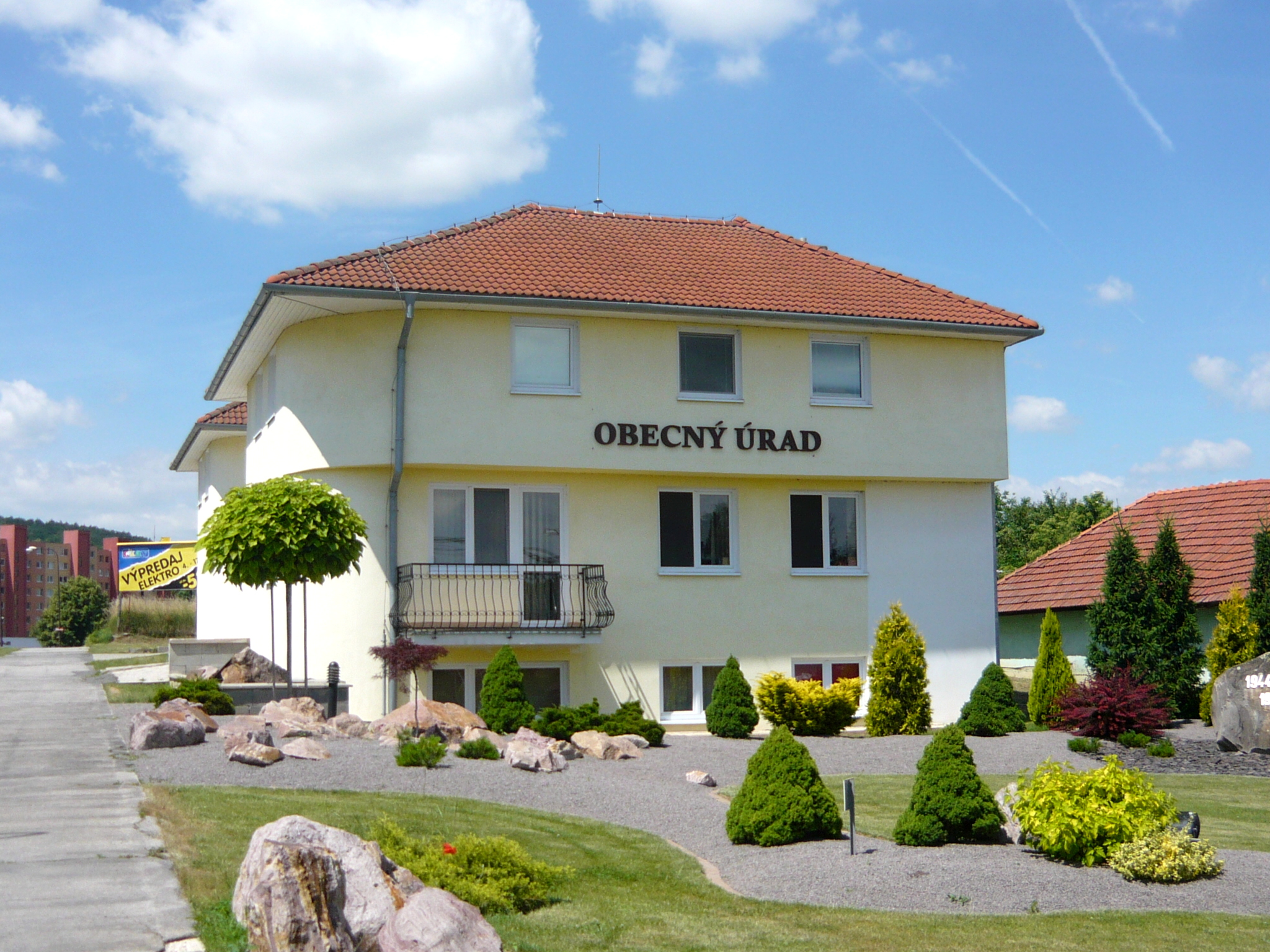 Town hall of Malé Uherce, Slovakia.